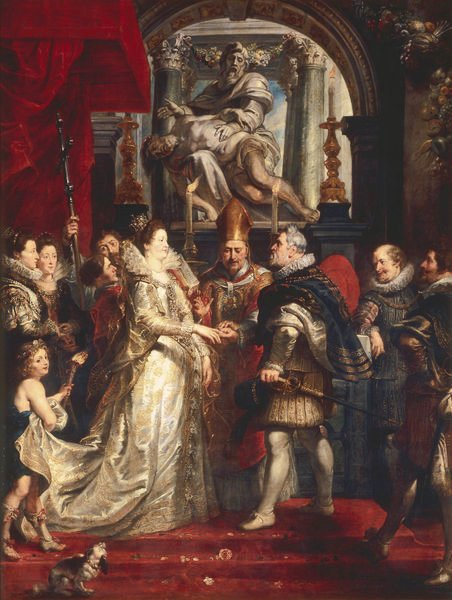 The Wedding by Proxy of Marie de' Medici to King Henry IV (1622–25), Rubens depicts the proxy marriage ceremony of the Florentine princess Marie de' Medici to the King of France, Henry IV which took place in the cathedral of Florence on October 5, 1600. Cardinal Pietro Aldobrandini presides over the ritual, however since Henry IV was too busy to attend his own wedding, the bride's uncle, the Grand Duke Ferdinand of Tuscany stood in his place and is pictured here slipping a ring on his niece's finger